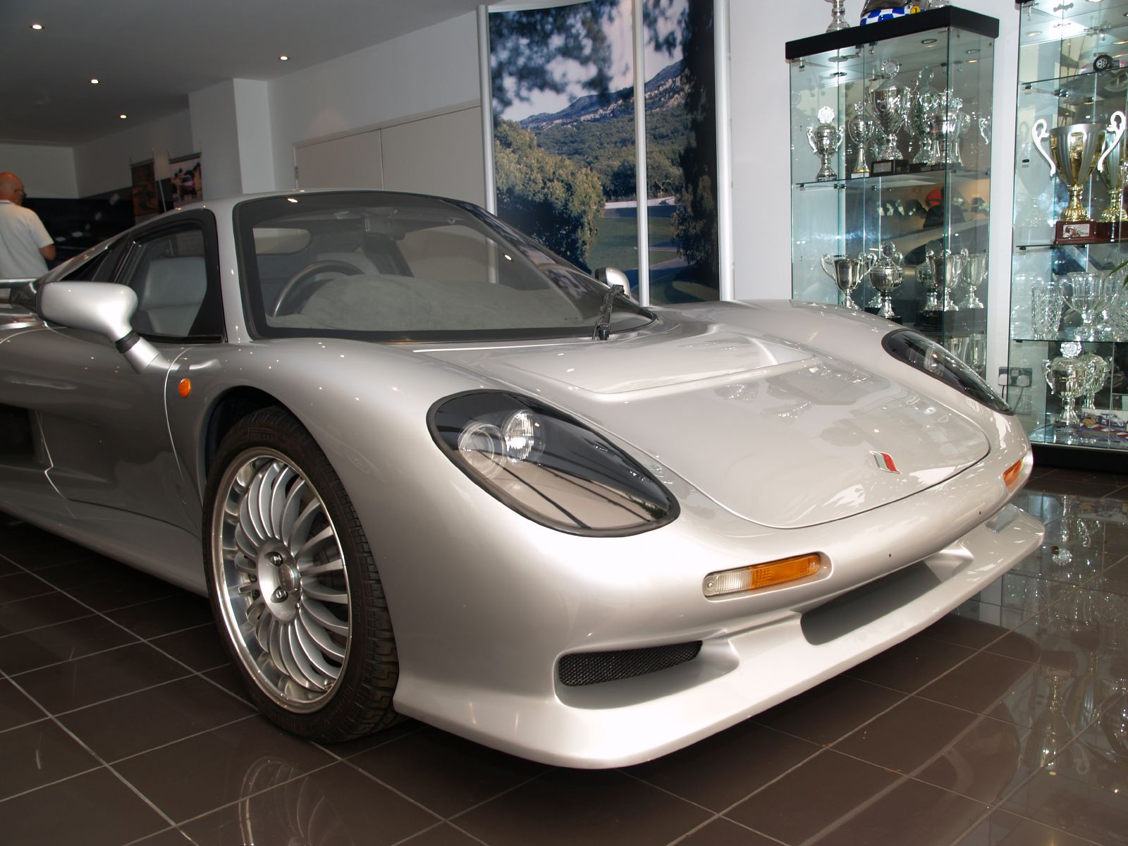 An Ascari Ecosse at the Ascari Race Resort